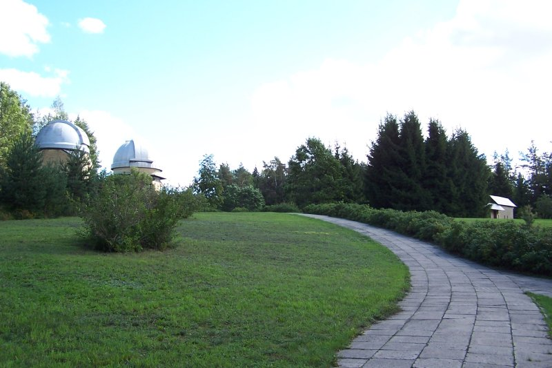 Telescopes in Moletai, Lithuania